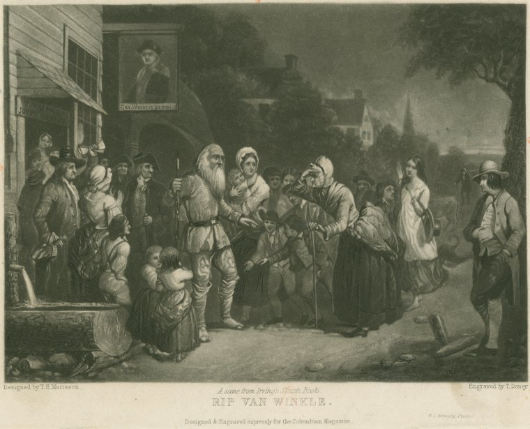 Image Title: Rip Van Winkle Creator: Matteson, Tompkins Harrison, 1813-1884 -- Artist Additional Name(s): Ormsby, W. L. (Waterman Lilly), 1809-1883 -- Printer Doney, Thomas, fl. 1844-1852 -- Engraver Medium: Mezzotints Specific Material Type: prints Item Physical Description: 1 print : b&w ; 14 x 17.5 cm. Notes: Printed on border: "A scene from Irving's Sketch Book." Designed & engraved expressly for the Columbian Magazine." Source: Children's book illustrations / Book illustrations -- Irving - Rip Van Winkle Source Description: 1 folder (28 pictures) Location: Mid-Manhattan Library / Picture Collection Catalog Call Number: PC-CHI BOOK-Irv-Rip Digital ID: 1703588 Record ID: 1878785 Digital Item Published: 2-22-2010; updated 8-10-2010